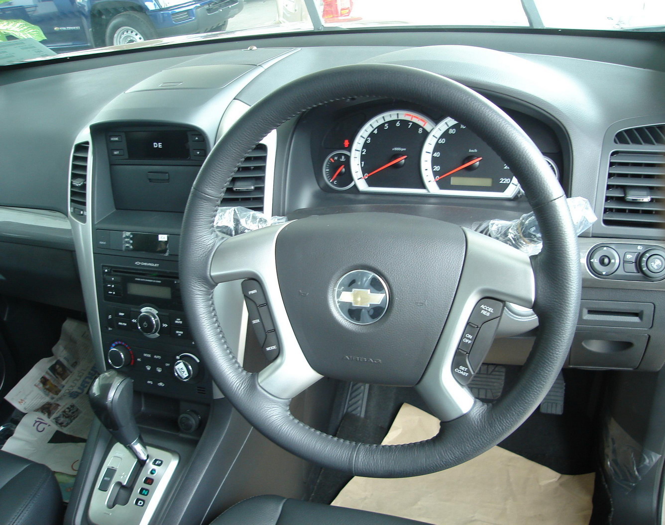 2007 Chevrolet Captiva (interior) - Tak, Thailand